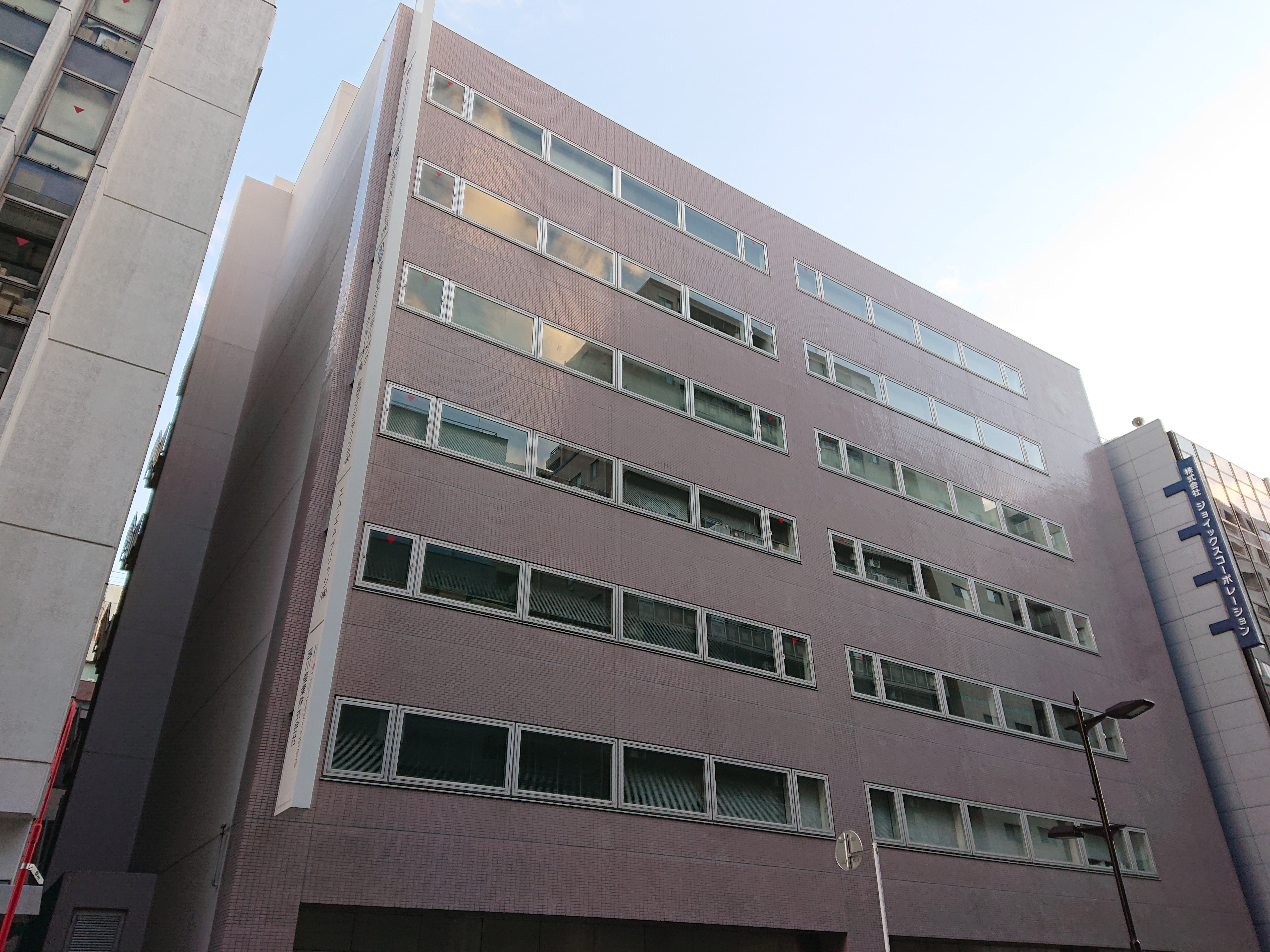 Sumitomo Life Insurance Nihonbashi-Tomizawacho Building (住友生命日本橋富沢町ビル), located at 9-19 Nihonbashi-Tomizawacho, Chuo, Tokyo, Japan